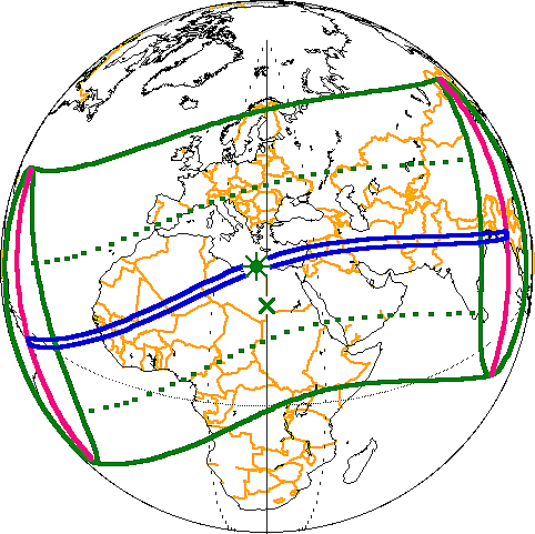 Solar eclipse map of path on earth. Solar eclipse of June 24, 1833 BC